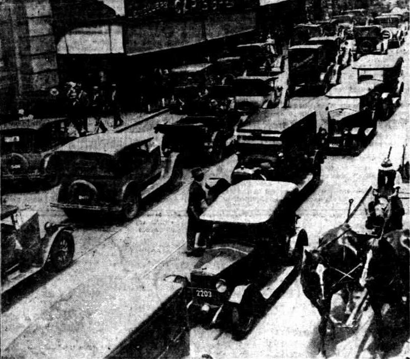 Traffic along a block of Barrack Street, Perth, Western Australia in 1929